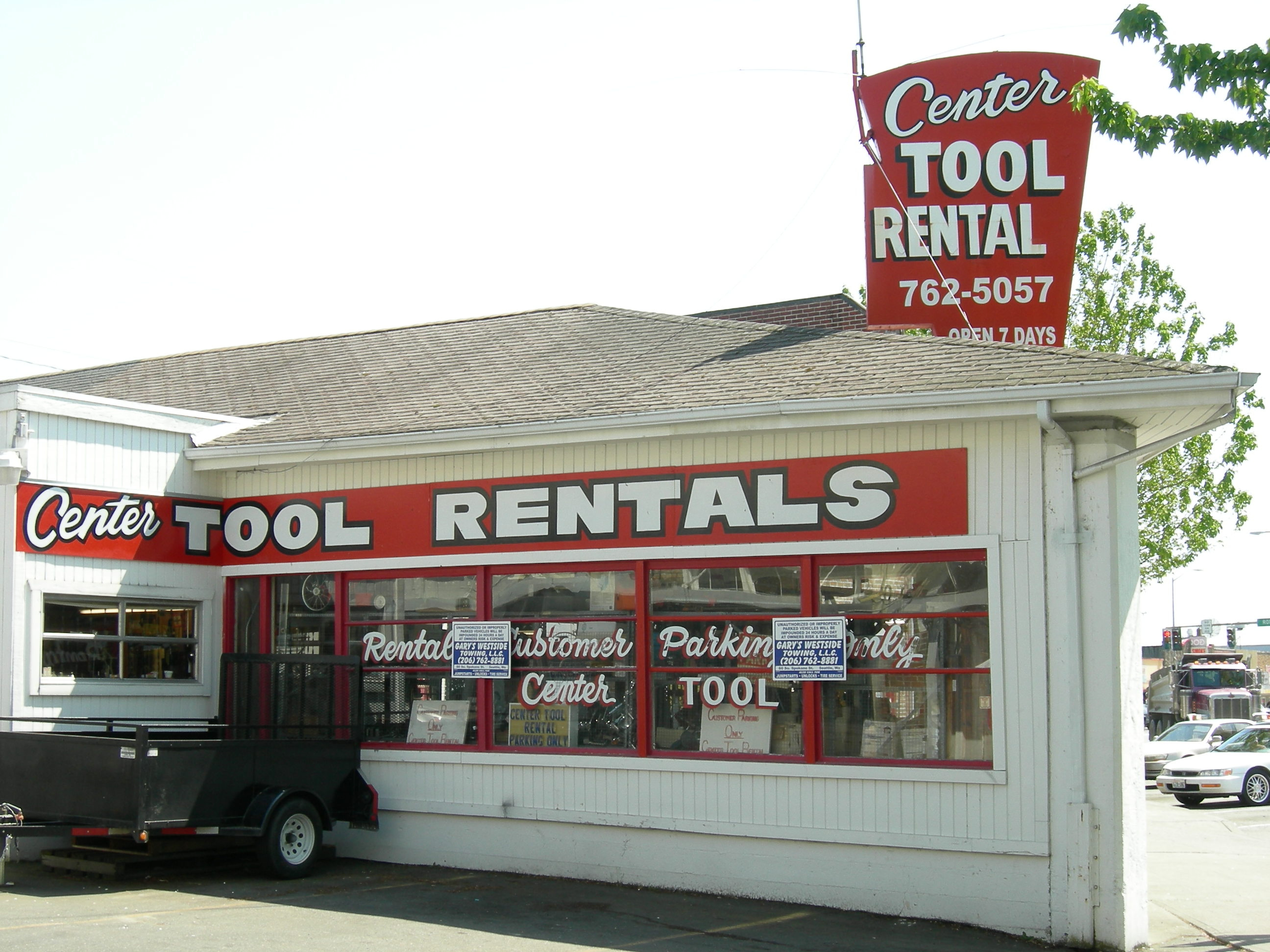 Tool rental shop, White Center, Washington.